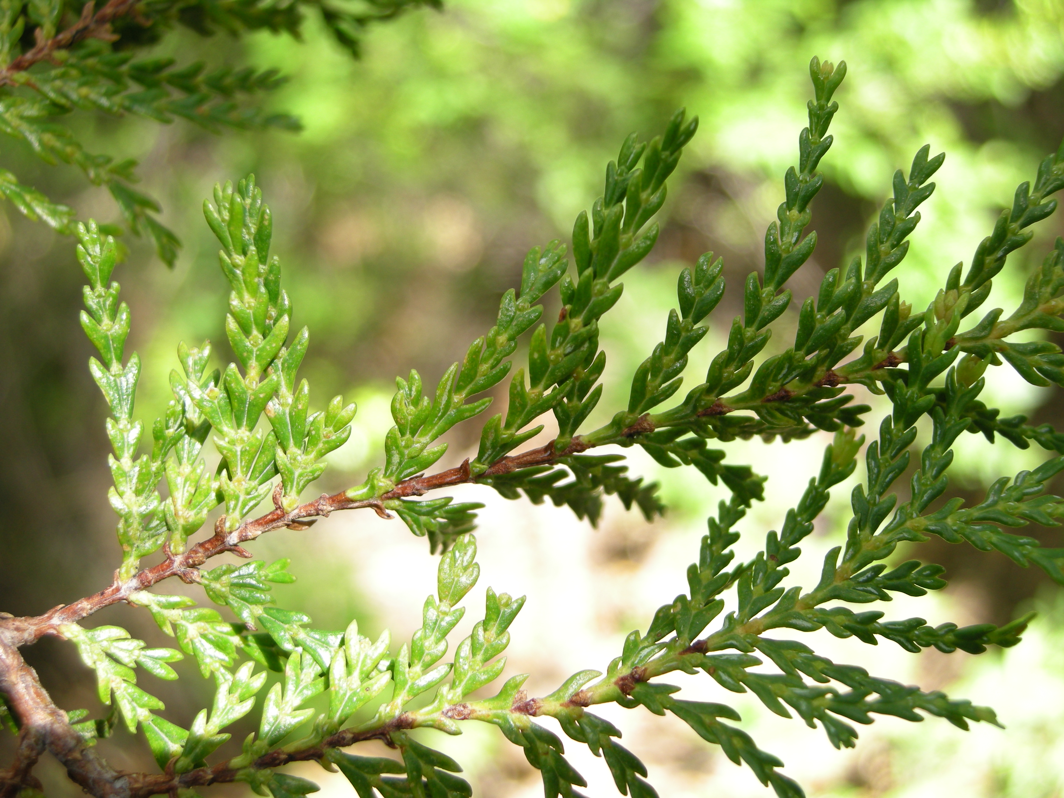 Leaves of Austrocedrus chilensis. Picture taken in Los Alerces National Park (Chubut province, Argentina).